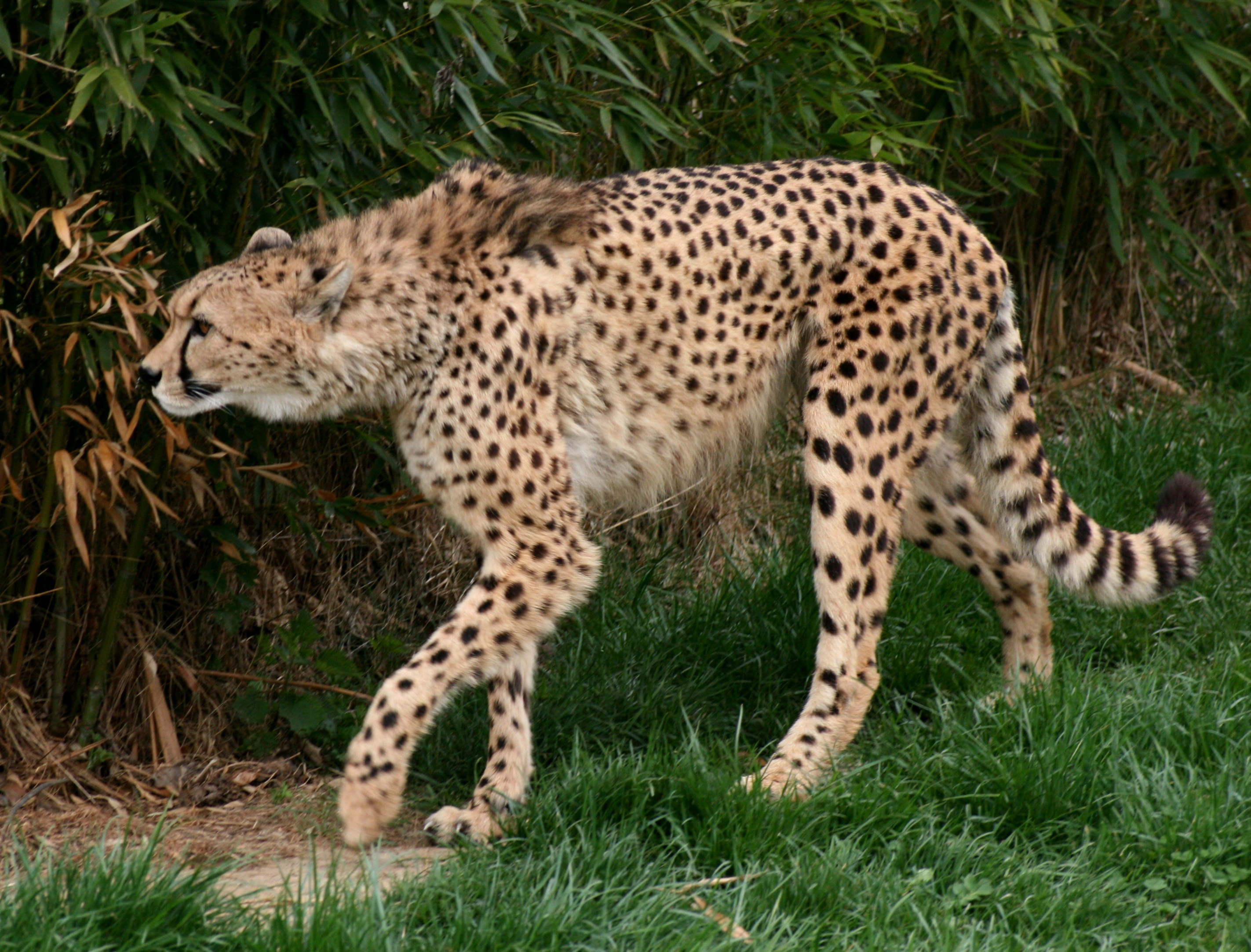 Cheetah in Herberstein zoo near Stubenberg, Styria, Austria, Europe